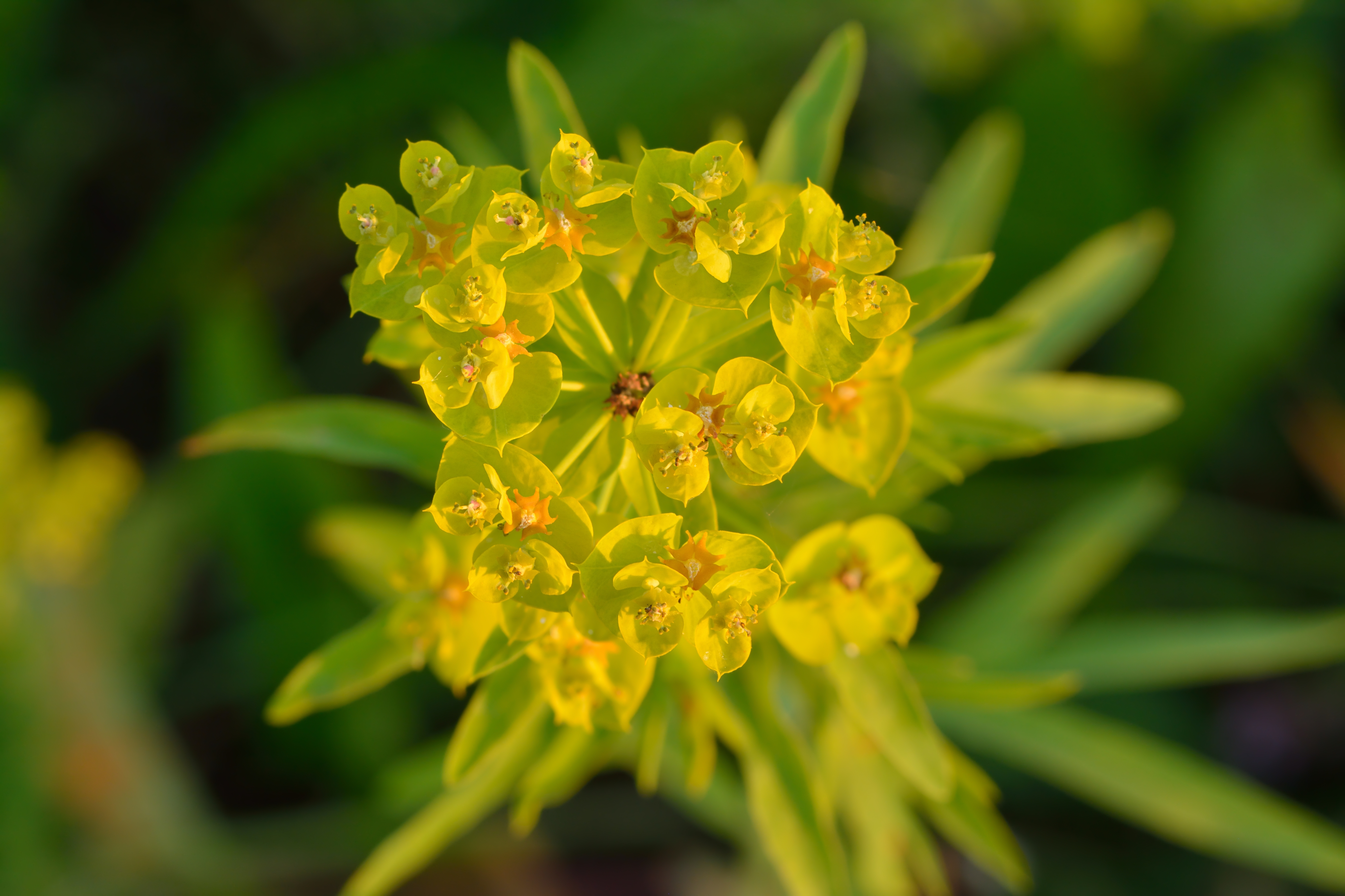 Green spurge (Euphorbia esula). Meadow in Humala village.